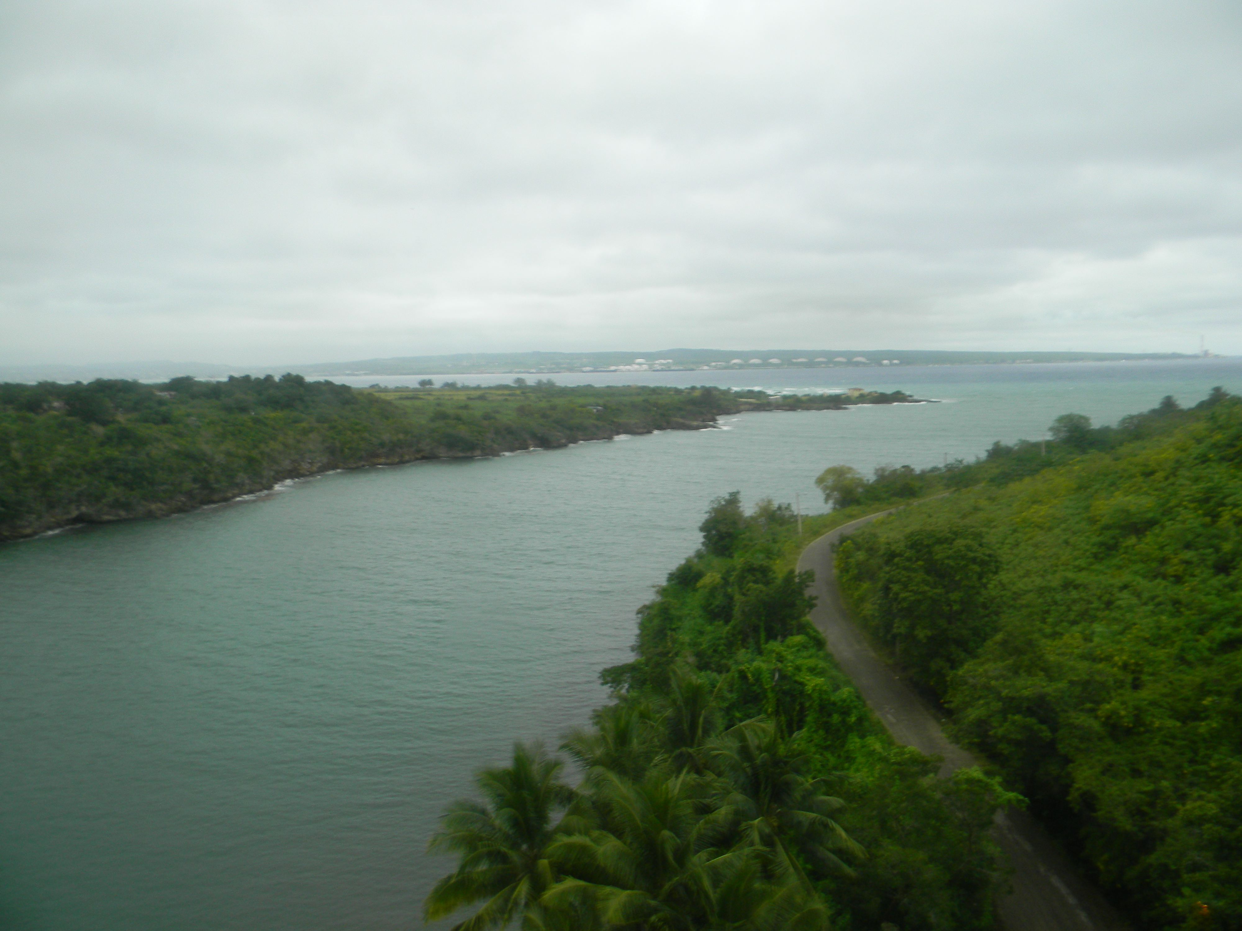 Rio Canimar, Cuba